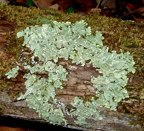 Lichen community on oak bark